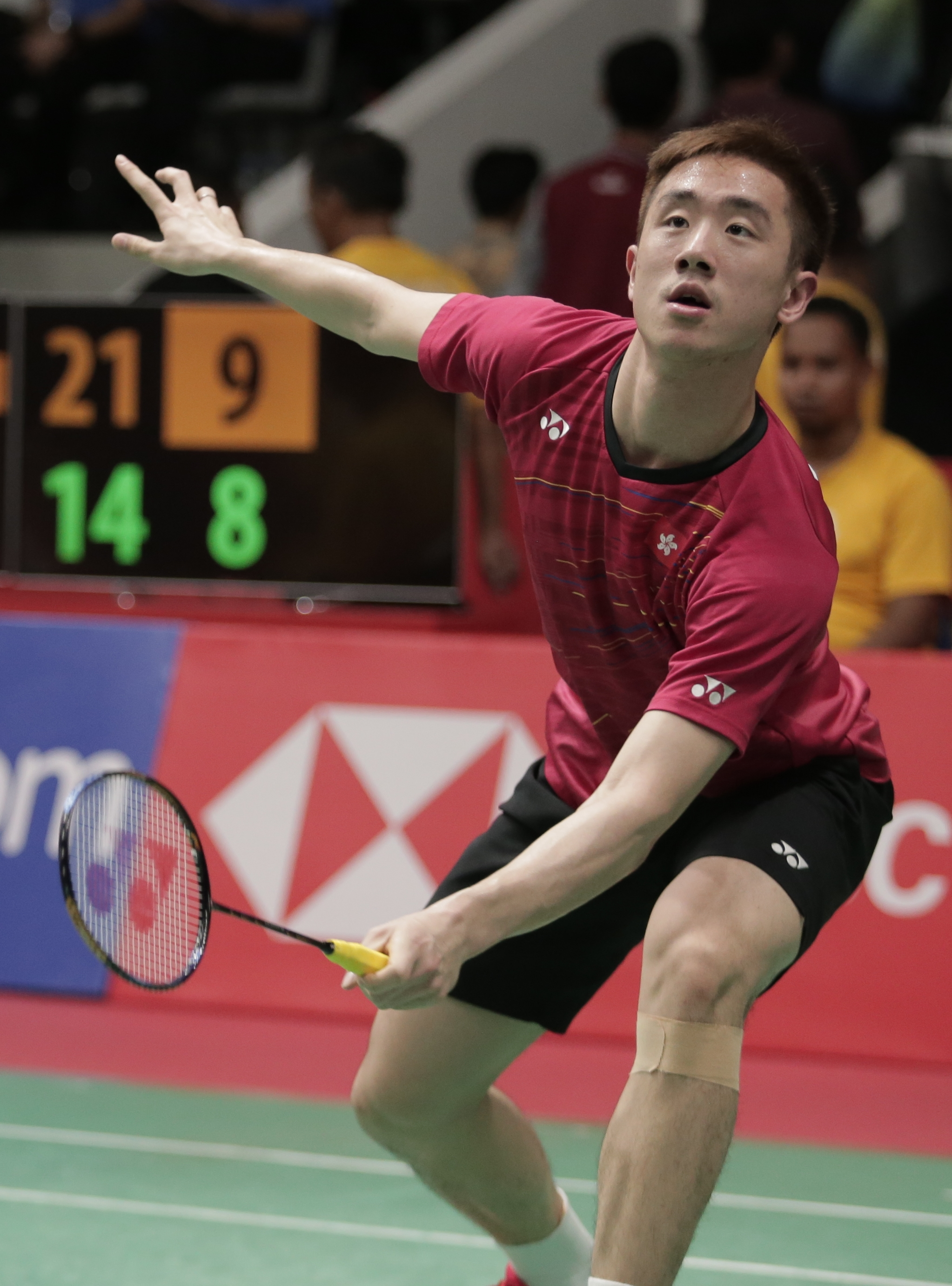 Tang Chun Man in action at Indonesia Masters 2018 badminton tournament